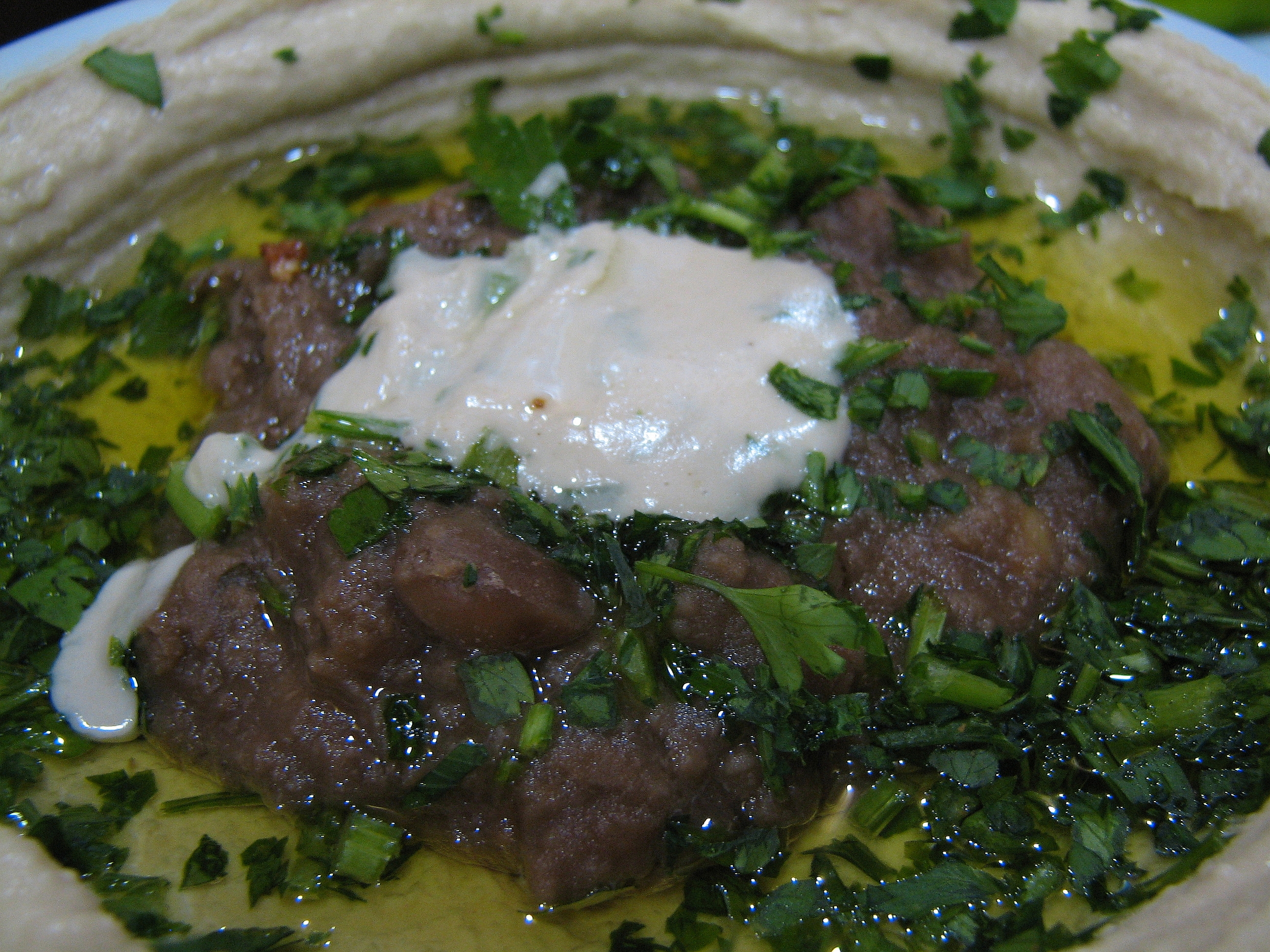 Plate of hummus and ful topped with tehina, olive oil, and garnished with chopped parsley